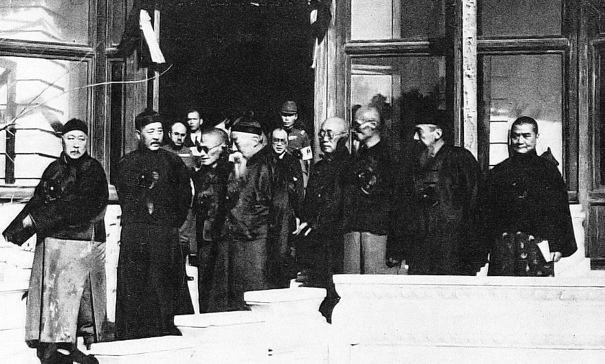 ROC government officials (Provisional Government of the Republic of China)